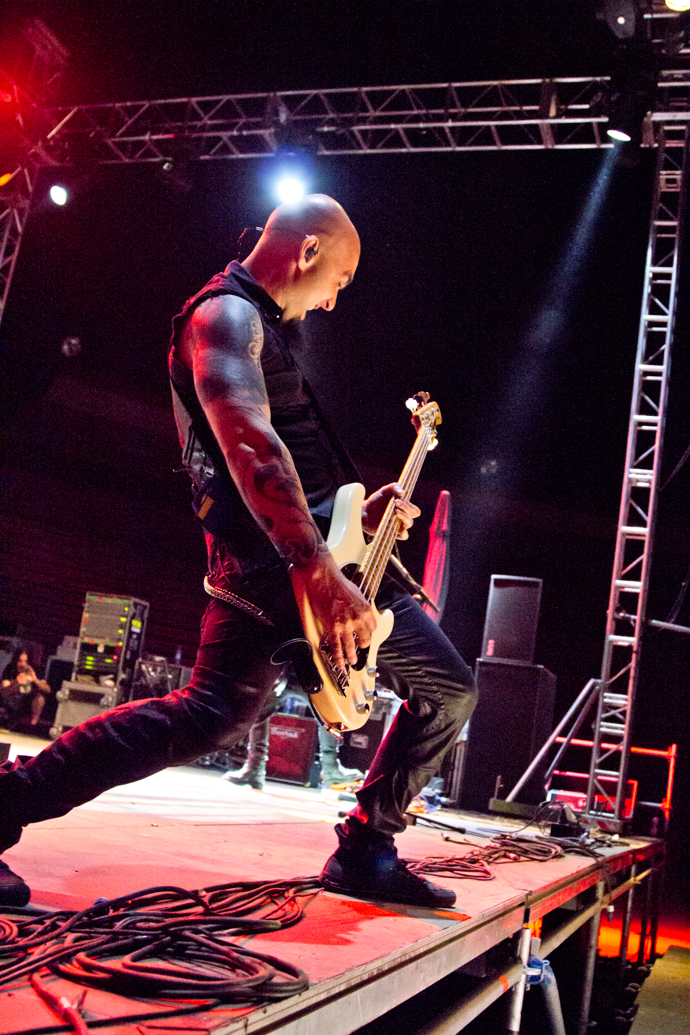 Spanish metal band Sôber at Asaco Metal Fest 2013, Parla, Spain.